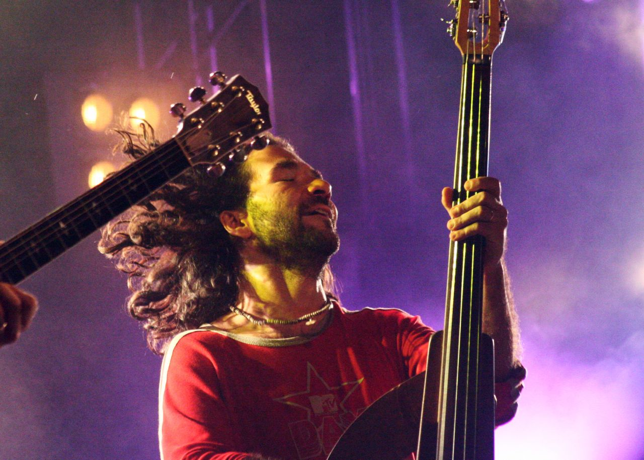 Marco "Donbachi" Bachi in concert with Bandabardò